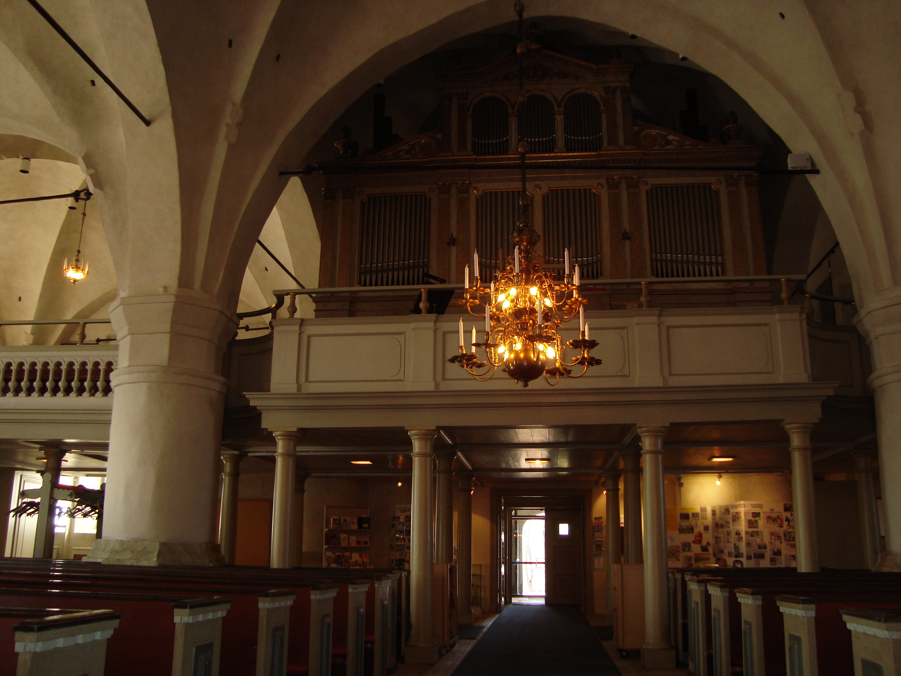 Norrbärke church, Smedjebacken, Sweden